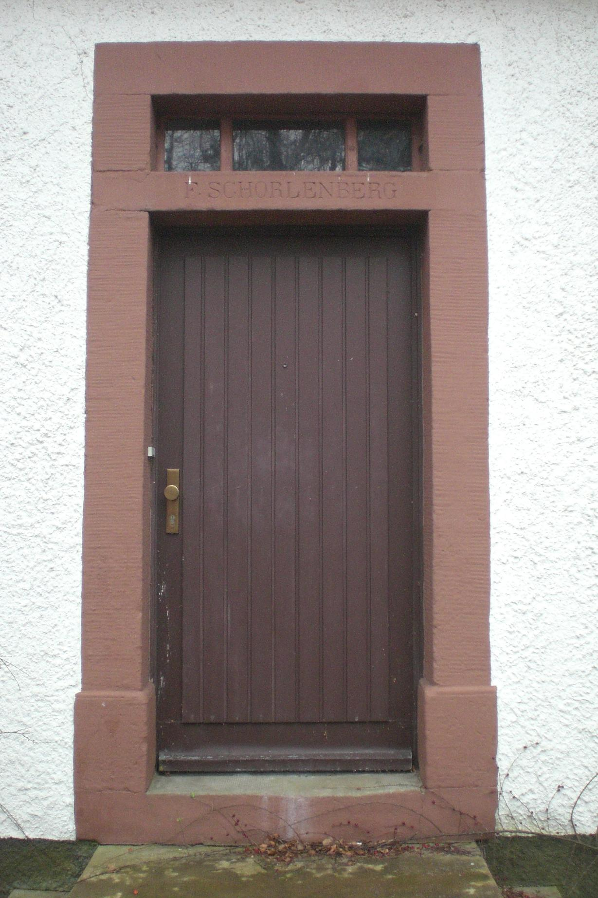 Ritterstein 179, Forsthaus Schorlenberg